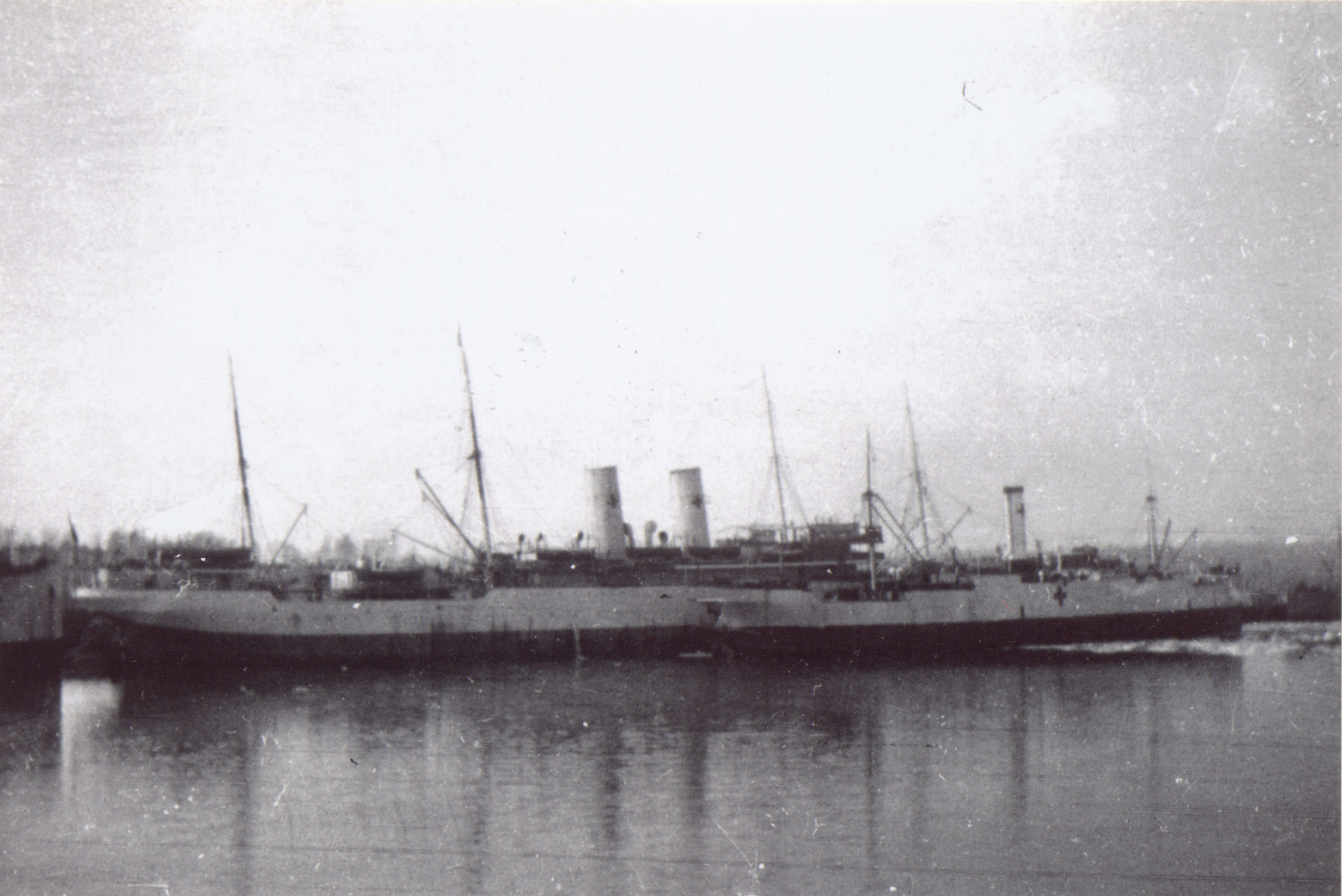 Hospital ships "Rus" (formerly "Rossija", Russian East Asiatic S.S. Co. - in the background) and "Joulan" (West Russian Steam Ship Co., later "Kamo" - to the fore) during World War I.